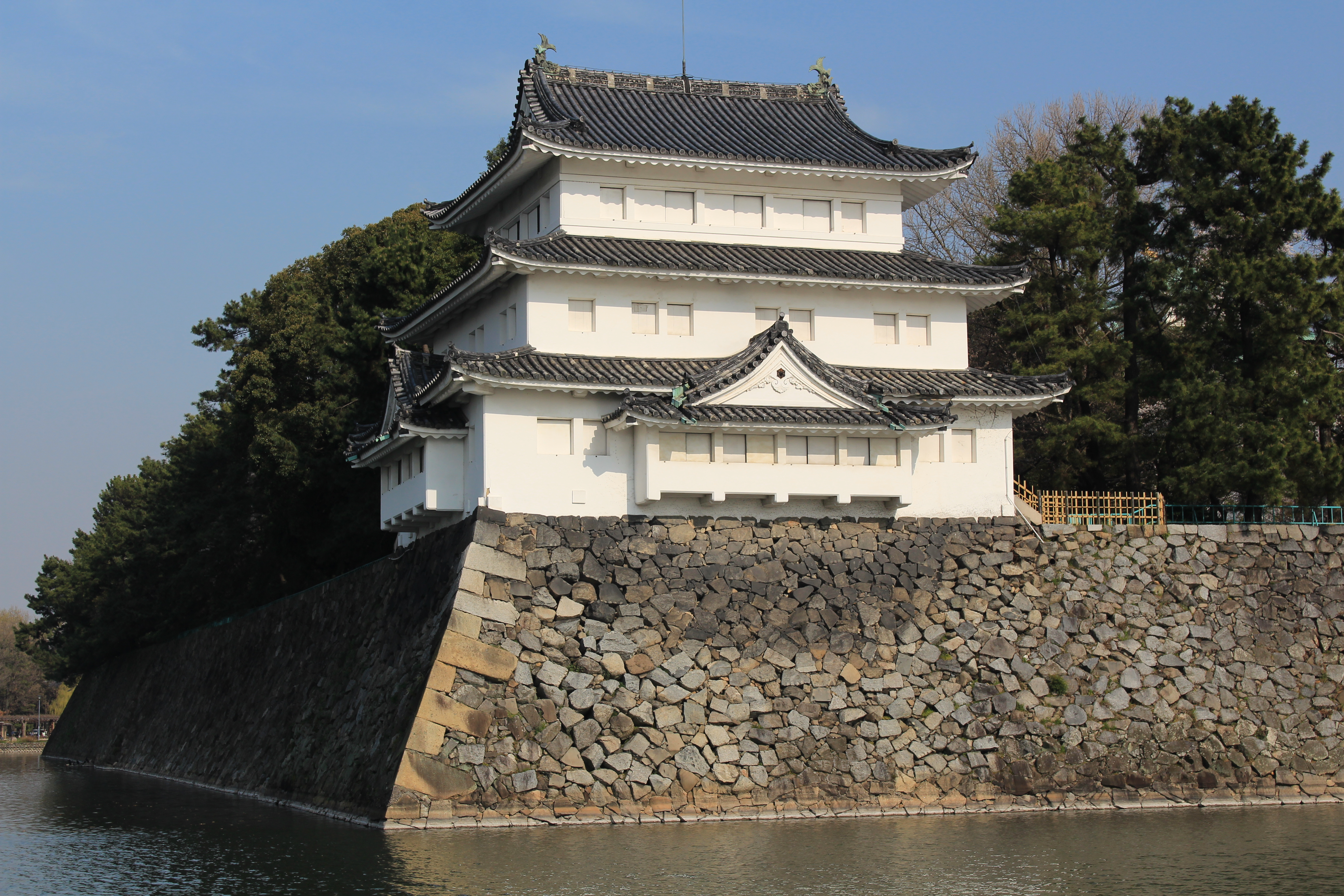 Northwest Turret of Nagoya Castle and Moat in Nagoya, Aichi prefecture, Japan.